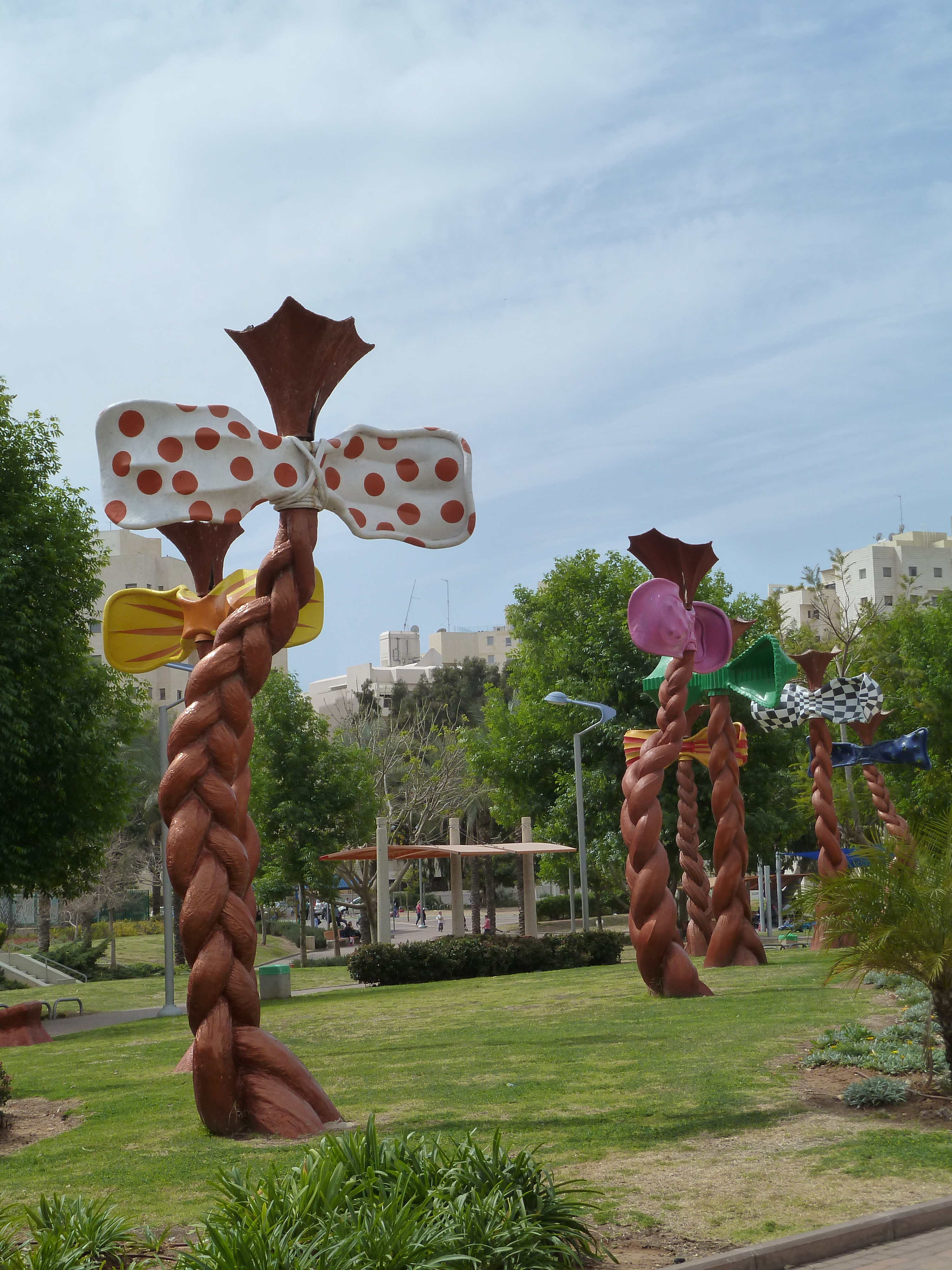 I"Noa’s Sign Language" - Statues by designer Effi Hujesta and illustrator Yaniv Shimoni, based on the book by Nira Harel, Holon, Israel This image was taken as part of the Elef Millim project trip to Hussamssa in Holon in the Centre of Israel, which was held on Friday, 8th March 2013. To view all images uploaded as part of the Elef Millim Project